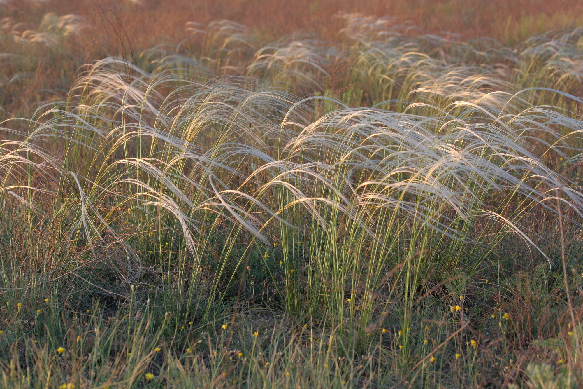 Stipa borysthenica (Poaceae) (Ivano-Rybalchanska section of the Black Sea Biosphere Reserve). This species is listed in the Red Book of Ukraine.